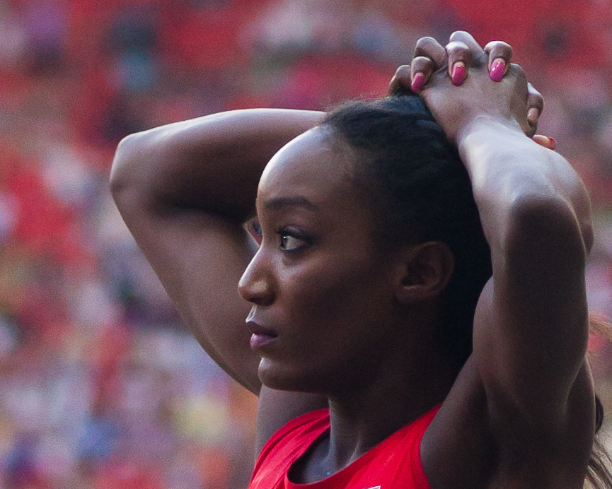 Funmi Jimoh during 2013 World Championships in Athletics in Moscow.